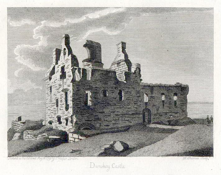 Dunskey Castle drawing by Francis Grose, 10 May 1790 in Antiquities of Scotland, vol.2, pp.191-192, pub.1791 by J. Hooper, London